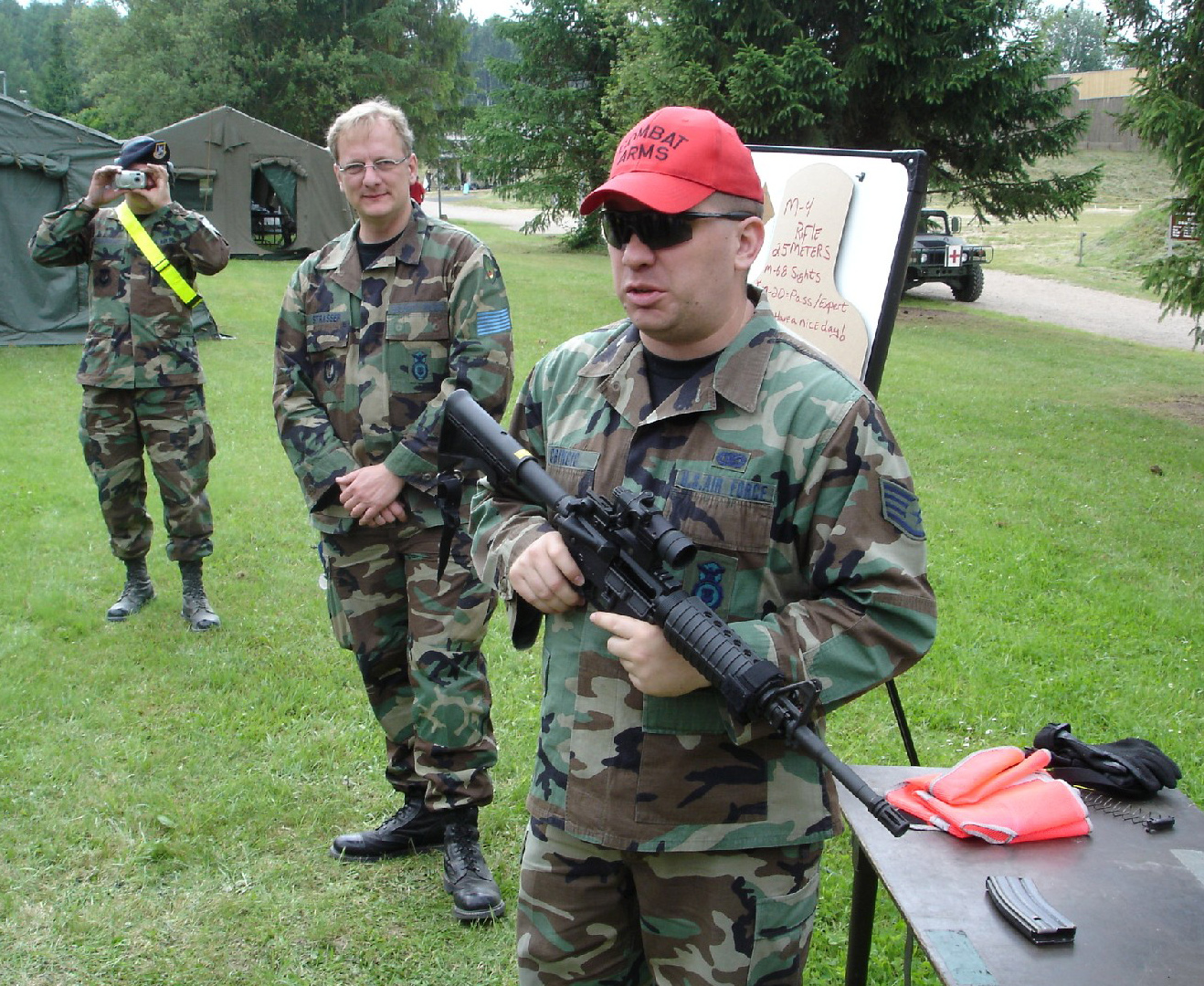 short instruction to the M4 rifle at Monte-Kali-Shooting , Germany